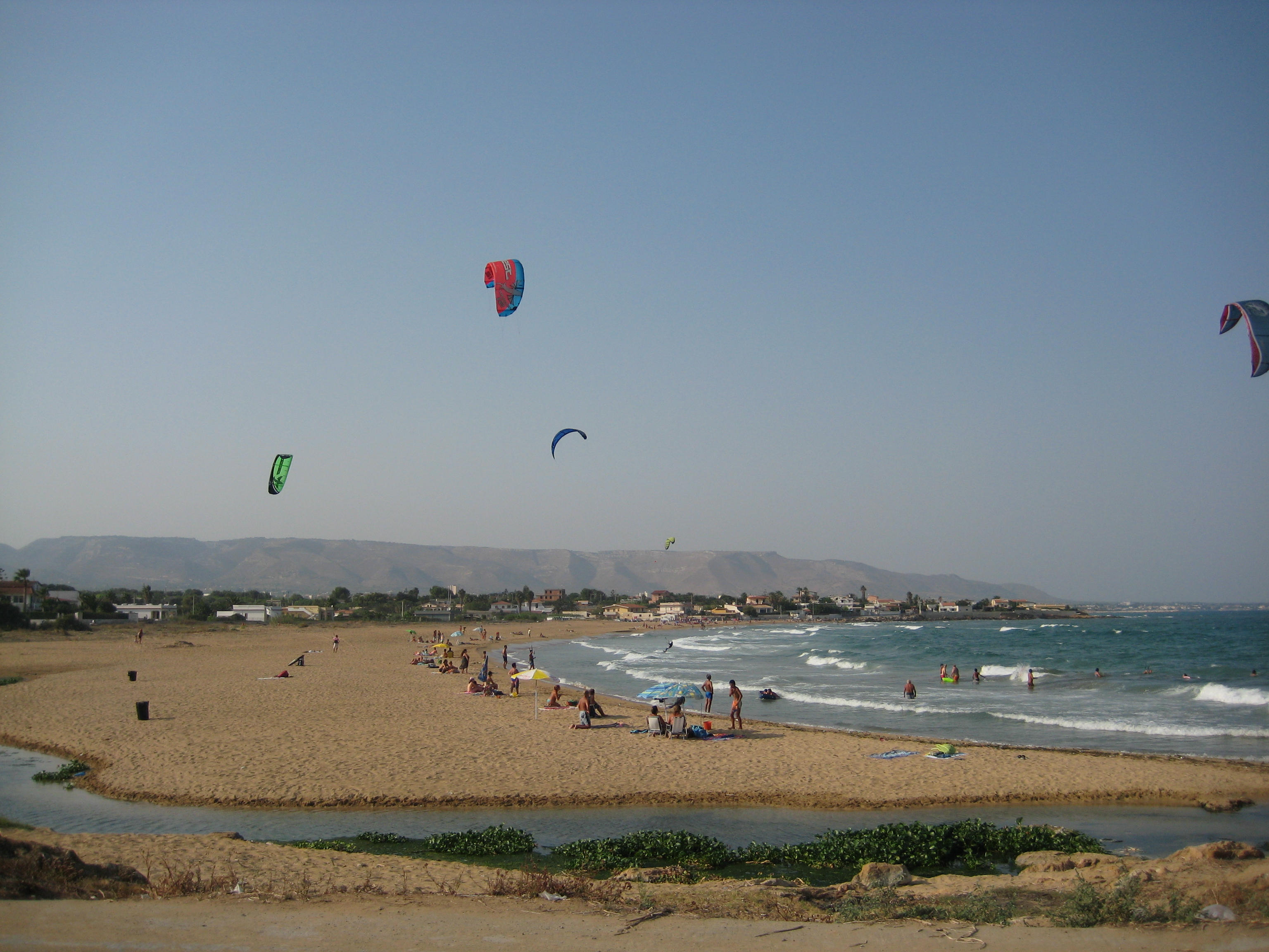 Spiaggia di Calabernardo, frazione di Noto (SR)